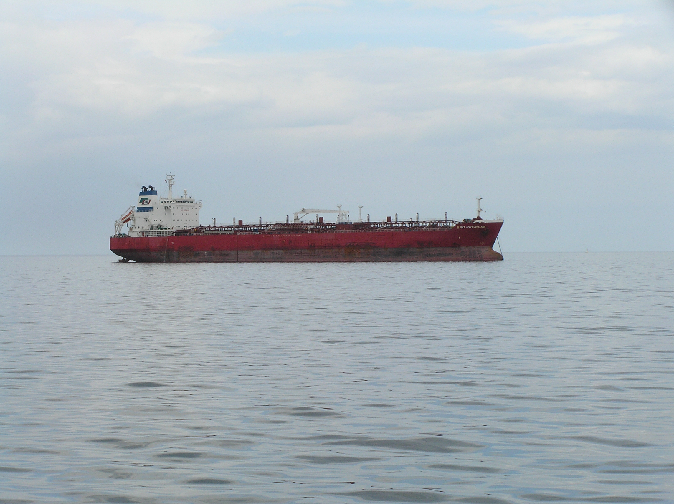 Tanker Bro Premium on the Gulf of Gdańsk